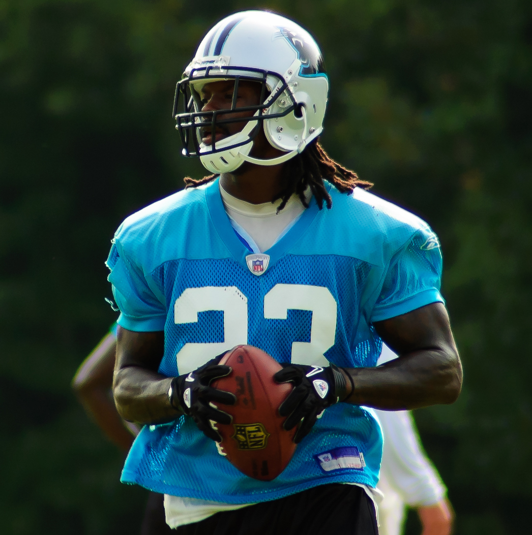 Carolina Panthers Training Camp on August 11, 2010 at Wofford College in Spartanburg, SC.